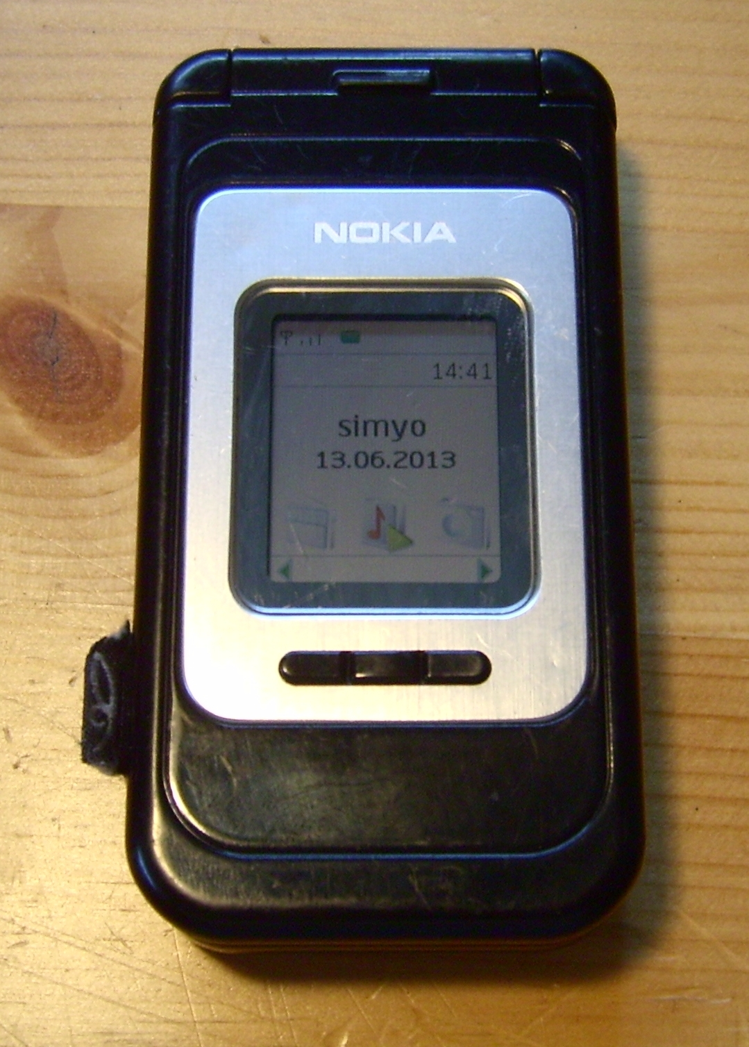 Nokia cell phone 7390 closed